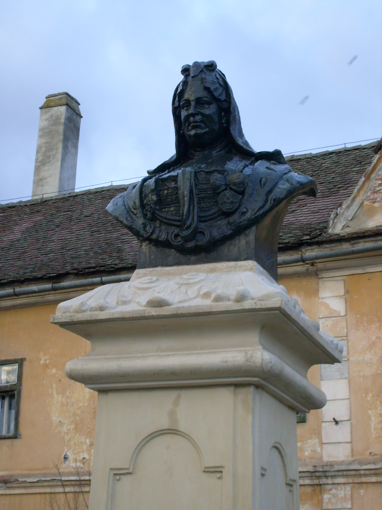 Bust of Maria Theresa in Sibiu.